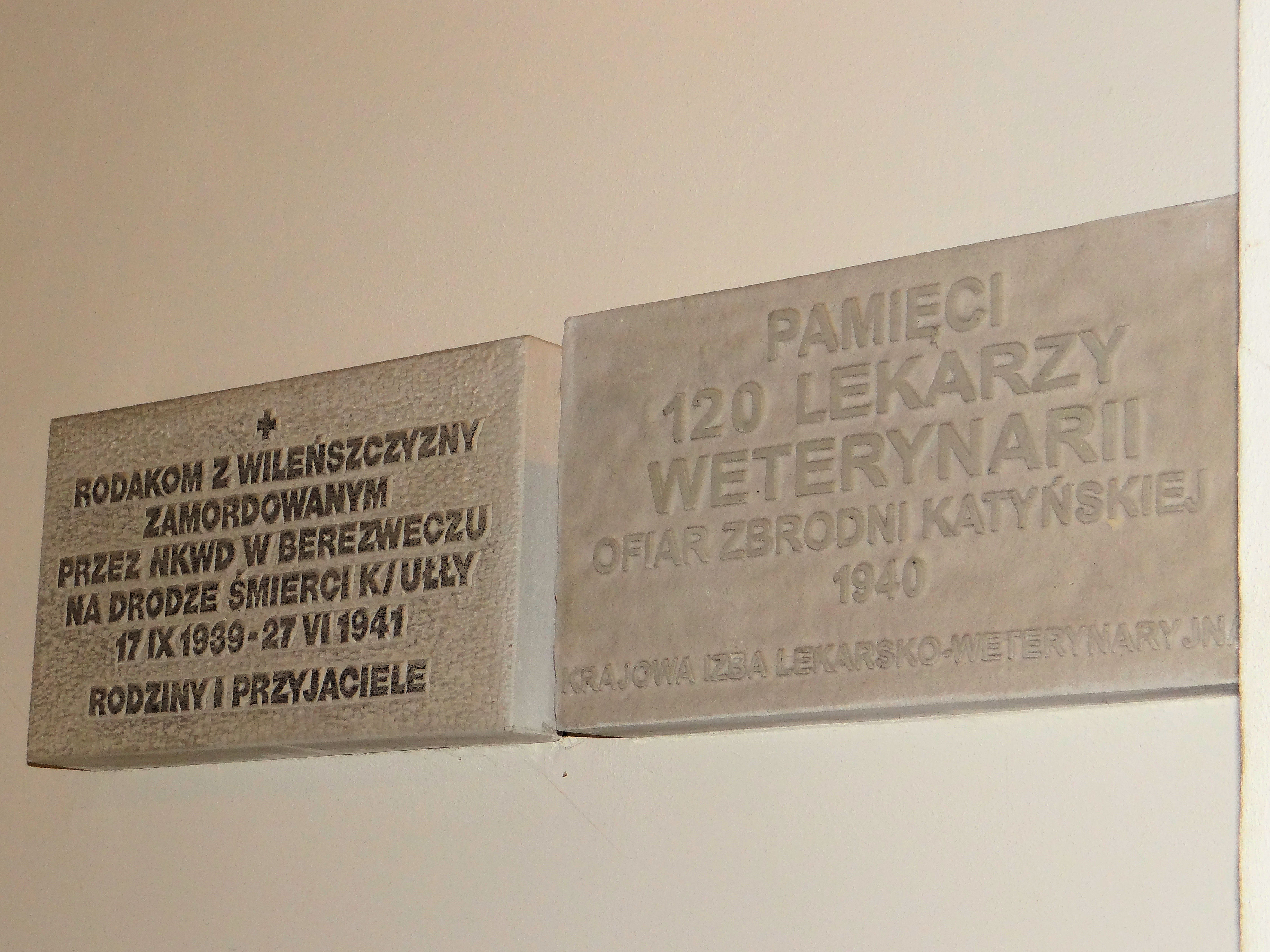 Chapel of the Katyn Massacre at Holy Cross church in Warsaw